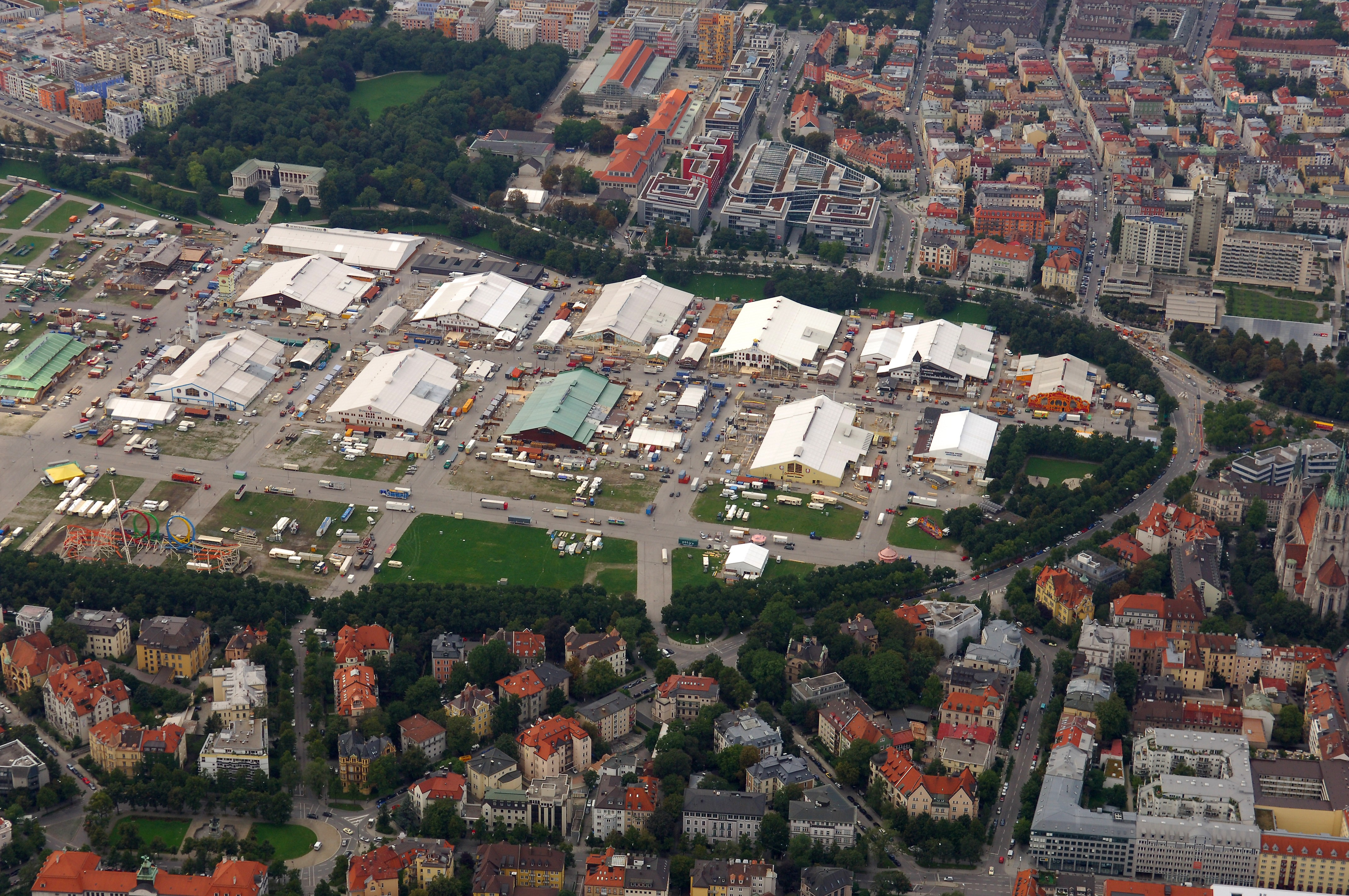 Theresienwiese, get-up the Oktoberfest